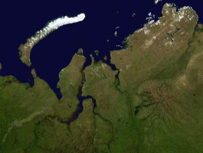 Northwestern Siberia from the satellite